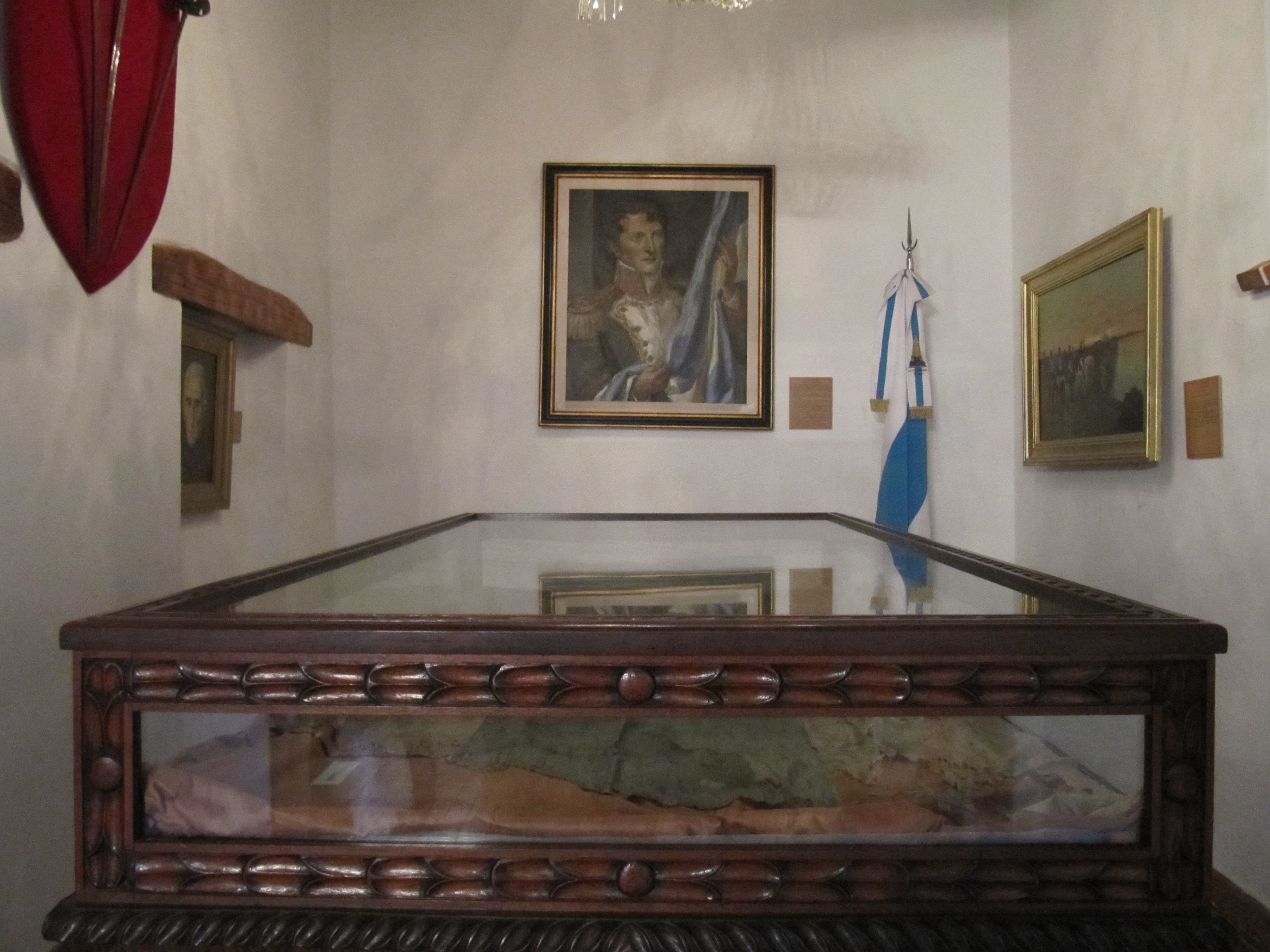 Argentinian flag in the Casa de la Libertad Museum, Sucre, Bolivia